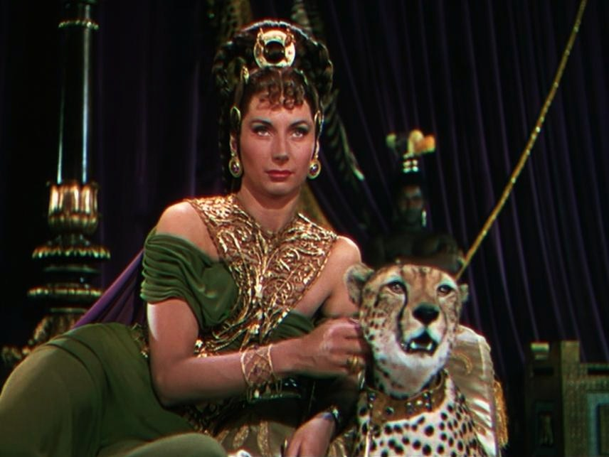 Screenshot of Patricia Laffan from the trailer for the film Quo Vadis